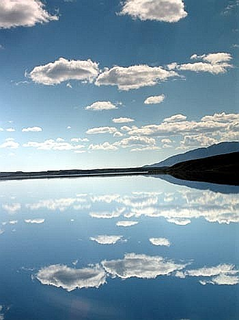 Summit Lake, near Paxson, Alaska. Beautiful, calm day with perfect reflections in this mountain lake. This is the original, color image.